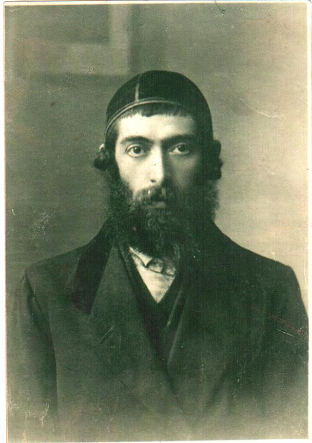 Shlomo Shtencel